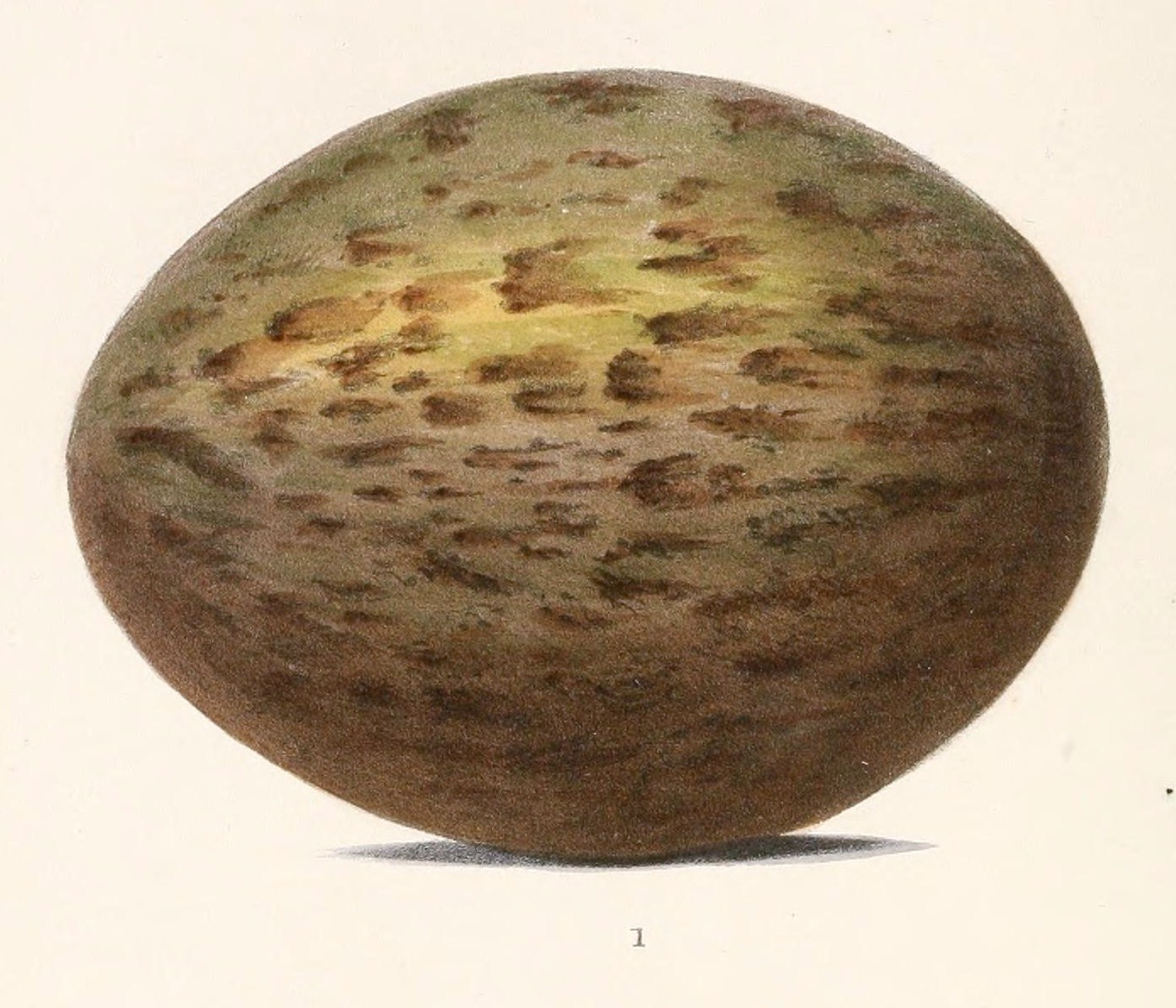 « Choriotis australis » = Ardeotis australis (Australian Bustard) - egg